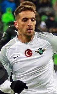 FC Krasnodar vs. Akhisar Belediyespor, 29 November 2018